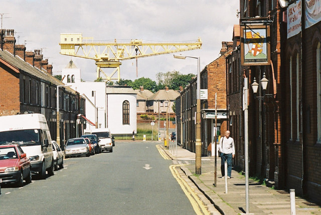 Anchor Road, Barrow Island Terraced housing for the shipyard workers. The hammerhead crane at Buccleuch Dock is an ever-present reminder of the traditions of the town.